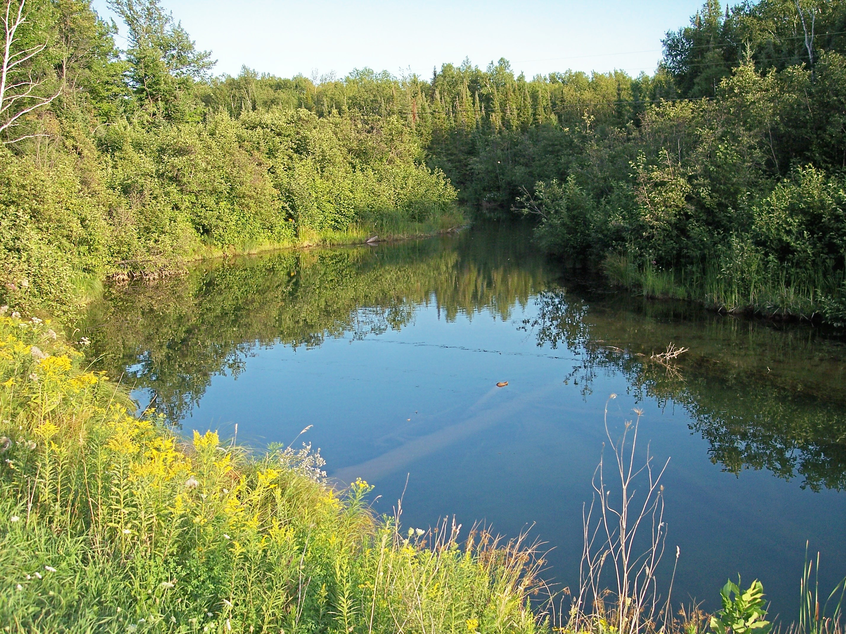 An upstream view of the Mineral River, just above its mouth at Lake Superior, from Michigan State Highway 64 in Ontonagon County, Michigan